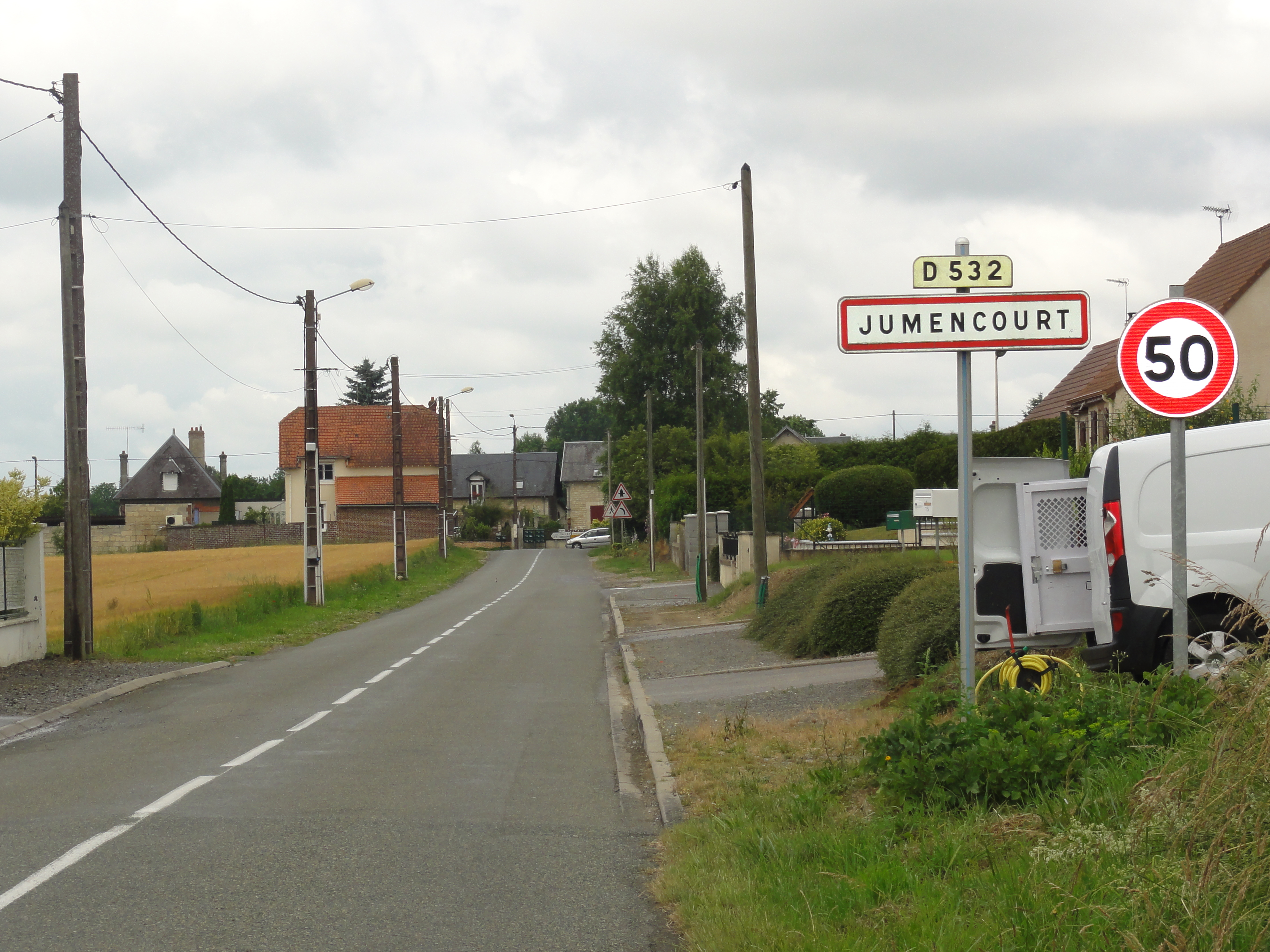 Jumencourt (Aisne) city limit sign